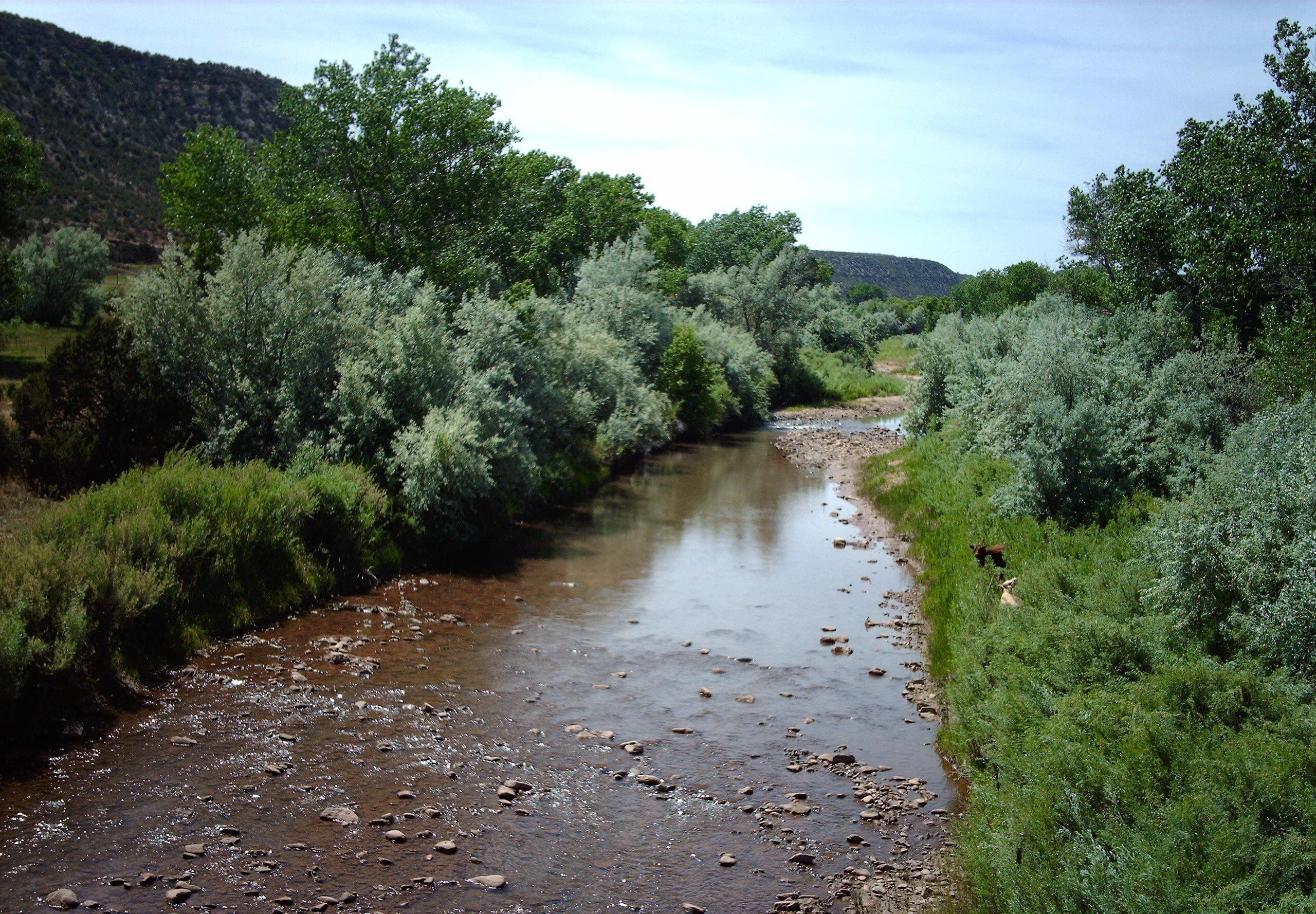 Pecos River. Near Villanueva on New Mexico State Highway 3 bridge. Looking north (upstream). Some cows on the right side. Taken by me.